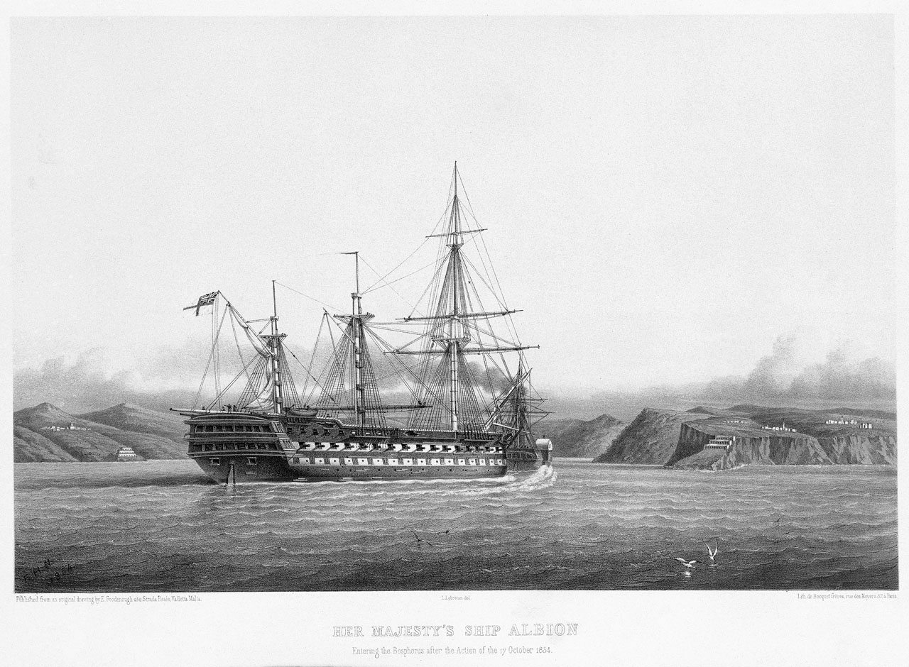 Her Majesty's Ship Albion Entering the Bosphorus after the Action of the 17 October 1854 Repro ID: x2045 . 'Albion' was a 90-gun, 2nd rate ship of the line of the Royal Navy. Her first military action was in the Crimean War during the siege of Sevastopol on 17 October 1854. She is depicted, partially dismasted, entering the Bosphorus after the action. While the print was made after the original by E Goodenough, the art work is also attributed to Frederick Hotham Needham, Naval Instructor aboard the Albion.